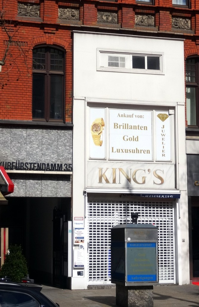 Arthur Korn, Drugstore Kopp & Joseph: state in 2015